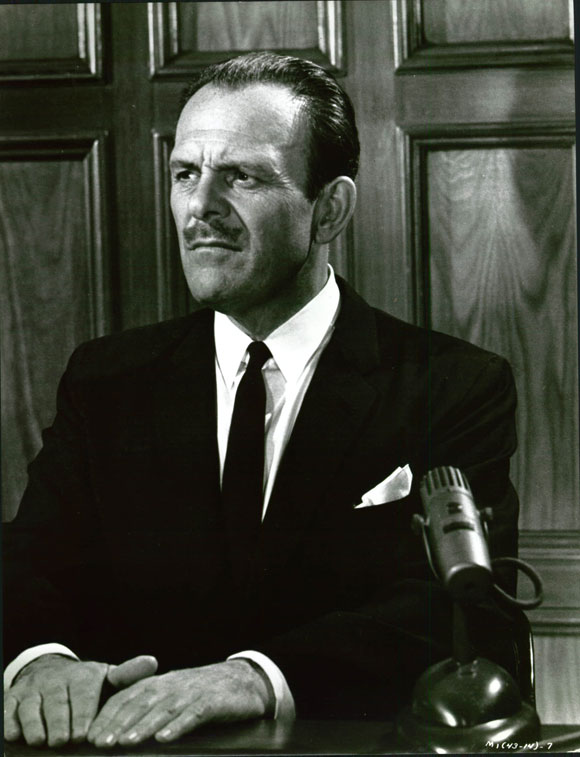 Promotional still of Terry-Thomas (1965)